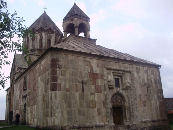 Monastery Gandzasar. Location: village Vank, Martakert district, Republic of Mountainous Karabakh ("Artsakh").